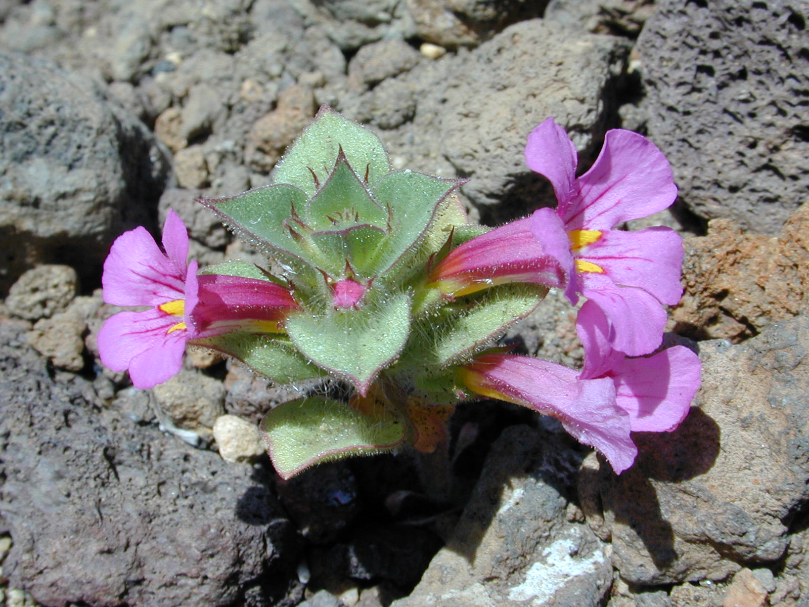 Division Creek lavaflow, Owens Valley, CA